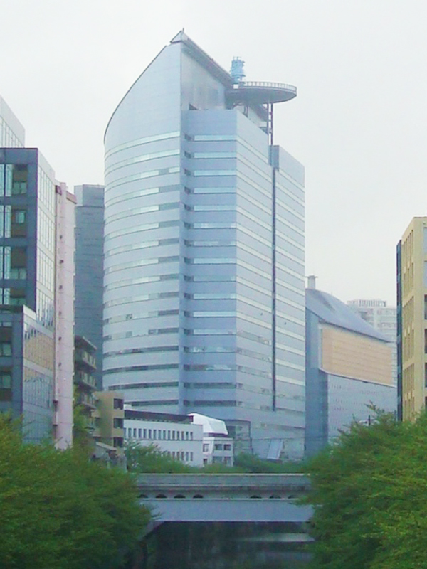 ARCO Tower, Meguro city, Tokyo